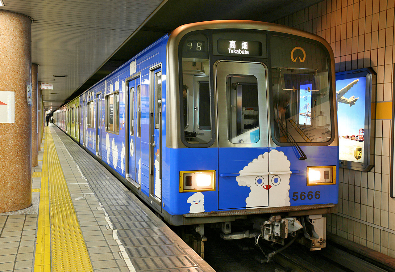 Nagoya Subway 5050 series with wrapping ad of Tokai TV